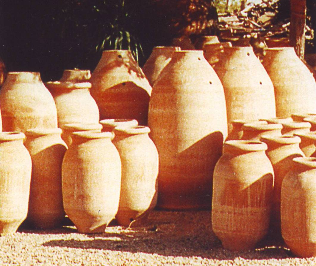 Tinajas (Colmenar de Oreja, Madrid, Spain). Belmonte-Useros excursion.